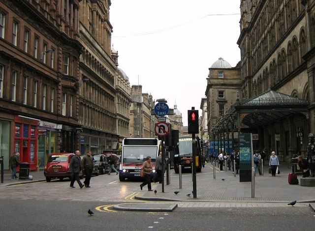 Central Station, Gordon Street